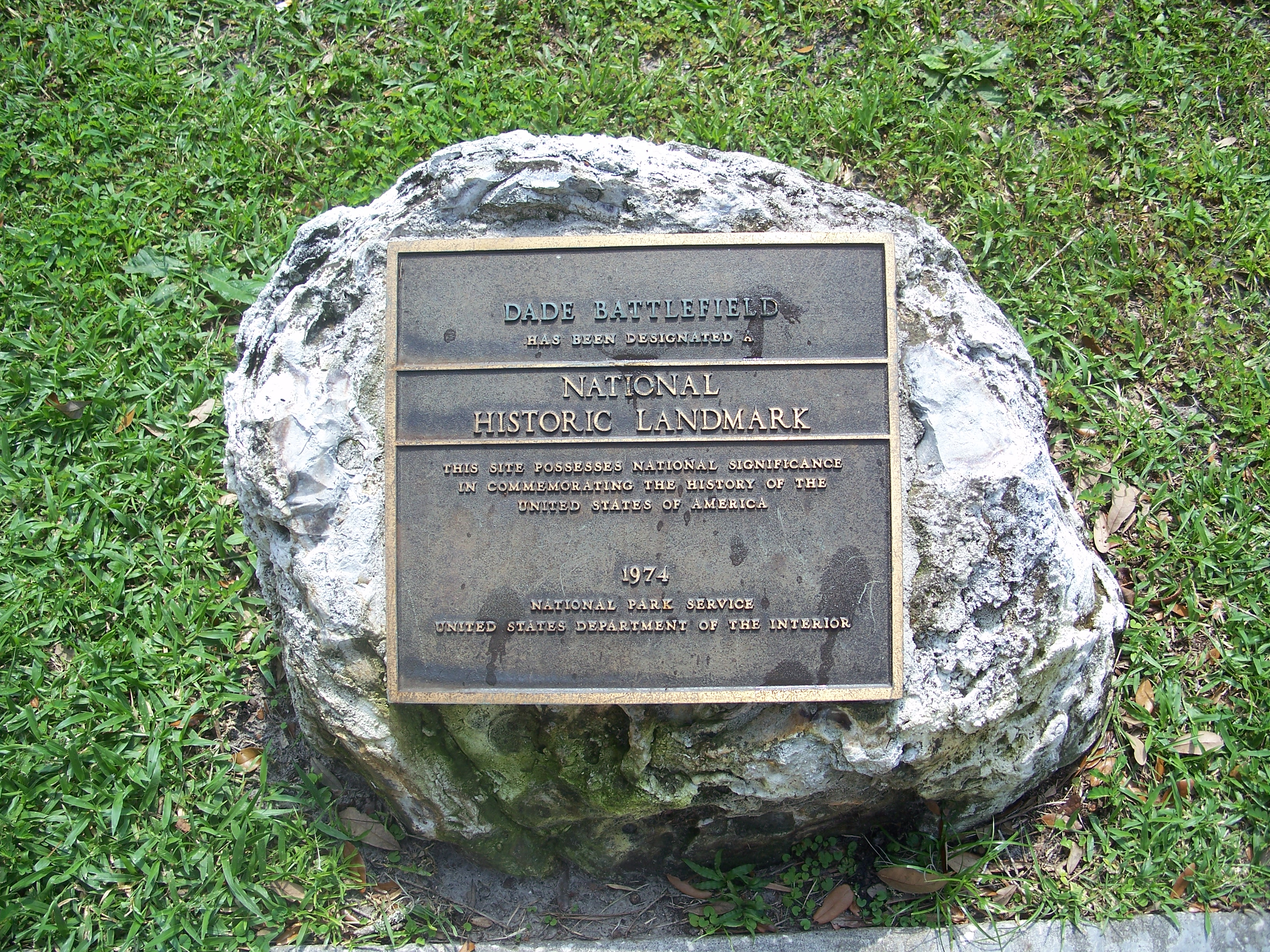 Bushnell, Florida: Dade Battlefield Historic State Park National Historic Landmark designation plaque.